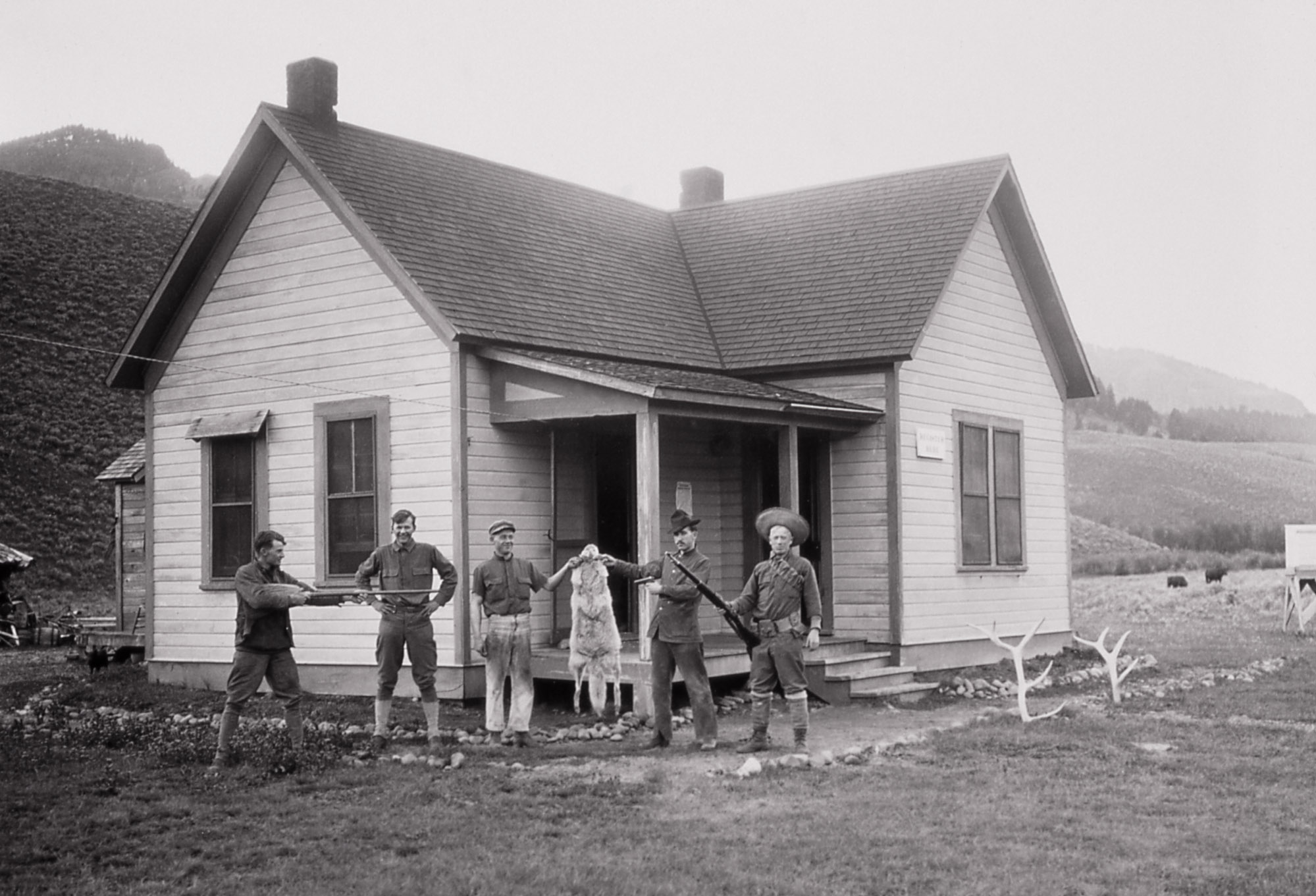 Soliders displaying Wolf pelt at Soda Butte Creek patrol station, Yellowstone National Park, 1905